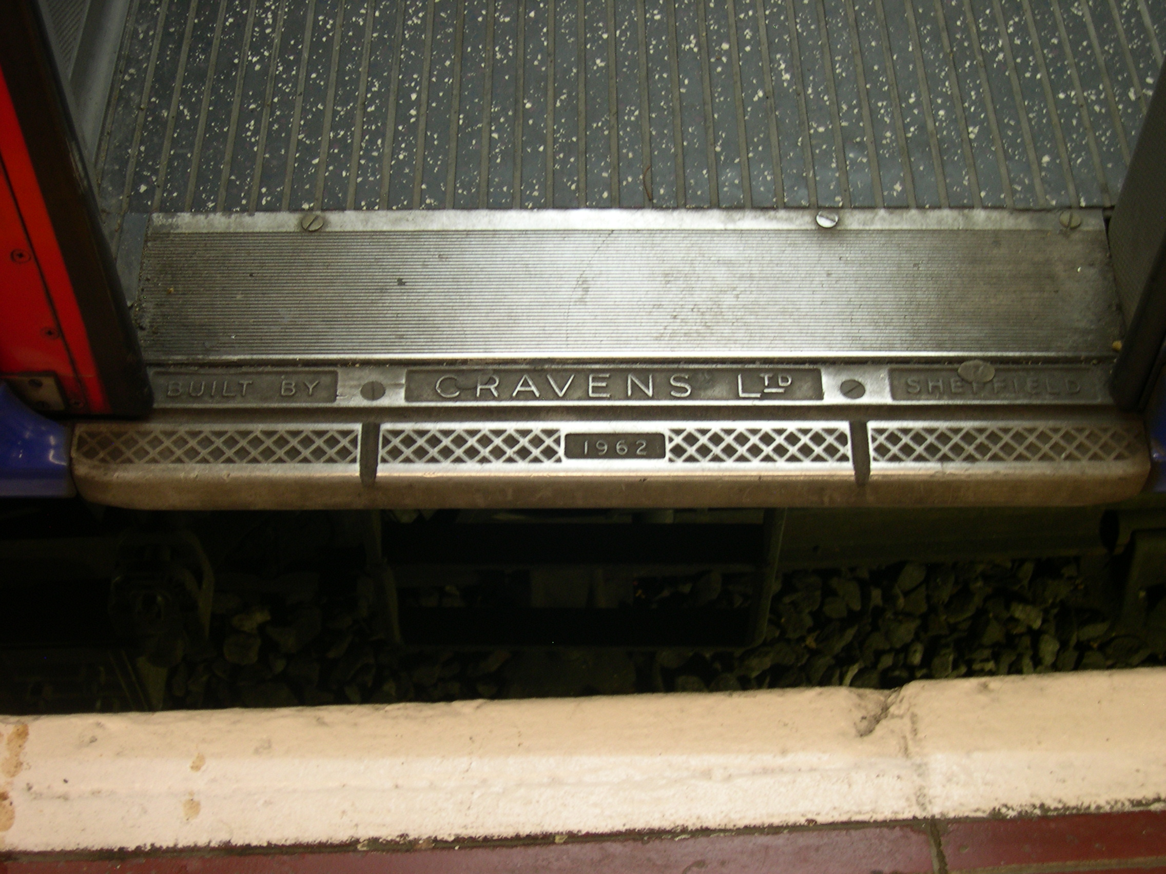 The builder's name on the doorway of an A62 stock